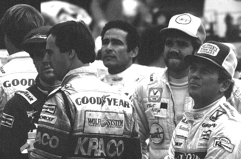 IndyCar drivers Roberto Guerrero, Geoff Brabham, Danny Ongais, Tony Bettenhausen Jr., and Chet Fillip. Photo by Ted Van Pelt with Creative Commons License.